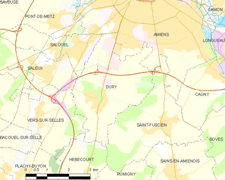 Map of French municipality Dury